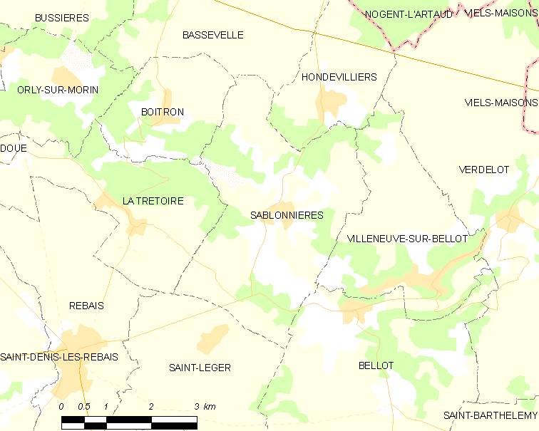 Map of French municipality Sablonnières